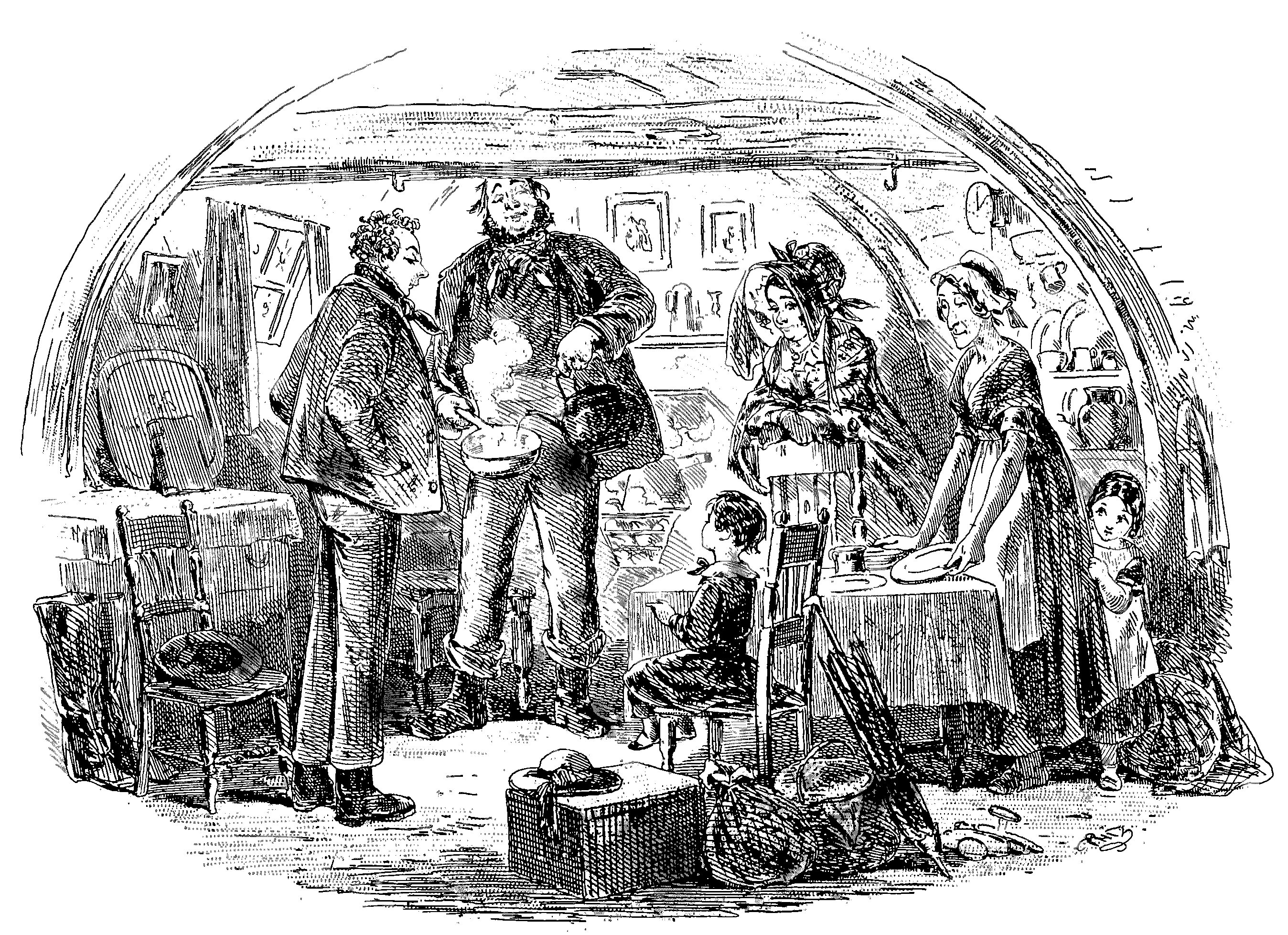 I AM HOSPITABLY RECEIVED BY MR. PEGGOTTY